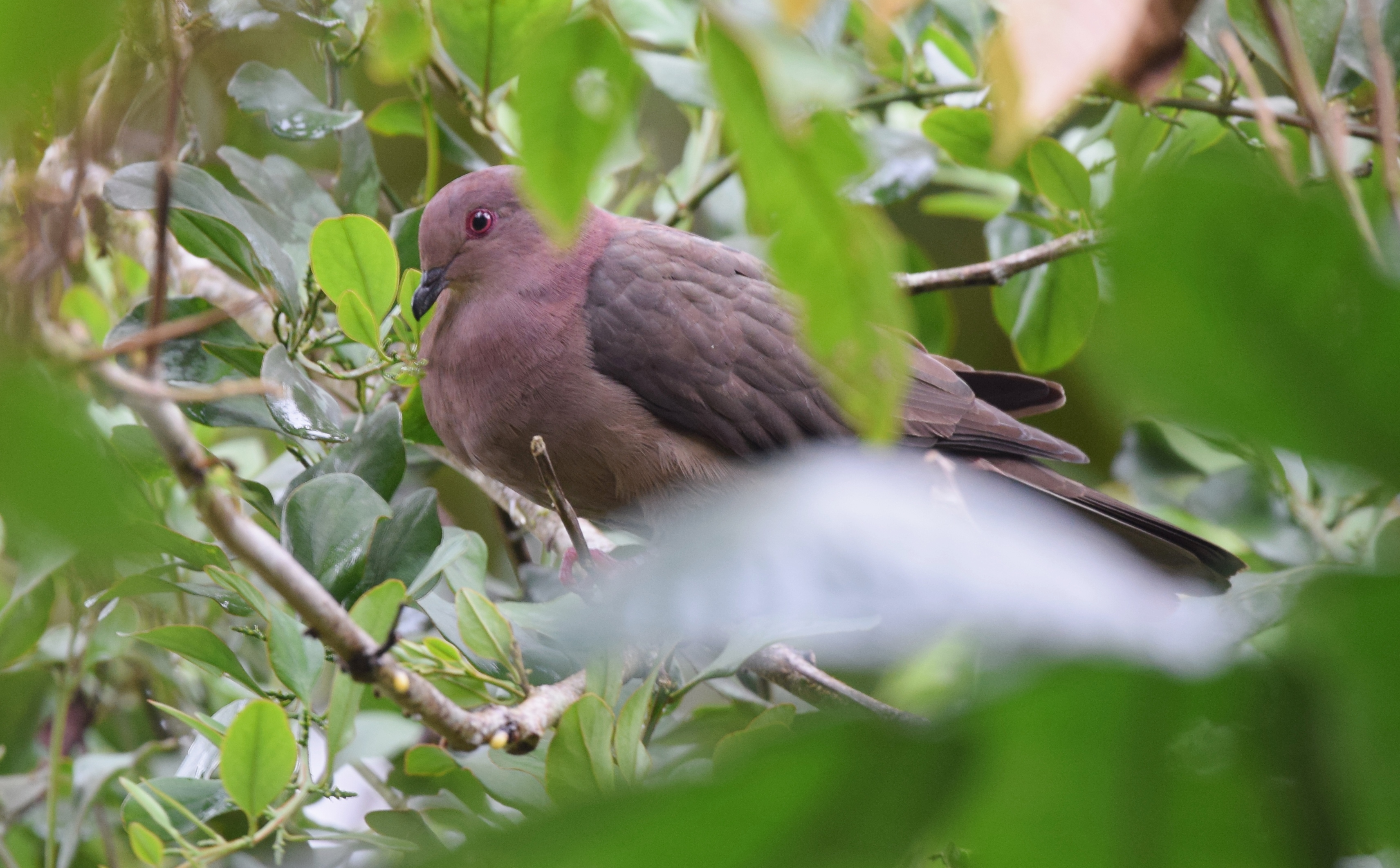 Costa Rica - 2/13/16 Rancho Naturalista